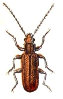 Dendrophagus crenatus, from Calwer's Käferbuch, Table 15, Picture 15. Taxonomy was updated to 2008, using mostly the sites Fauna Europaea and BioLib. Please contact Sarefo if the determination is wrong!